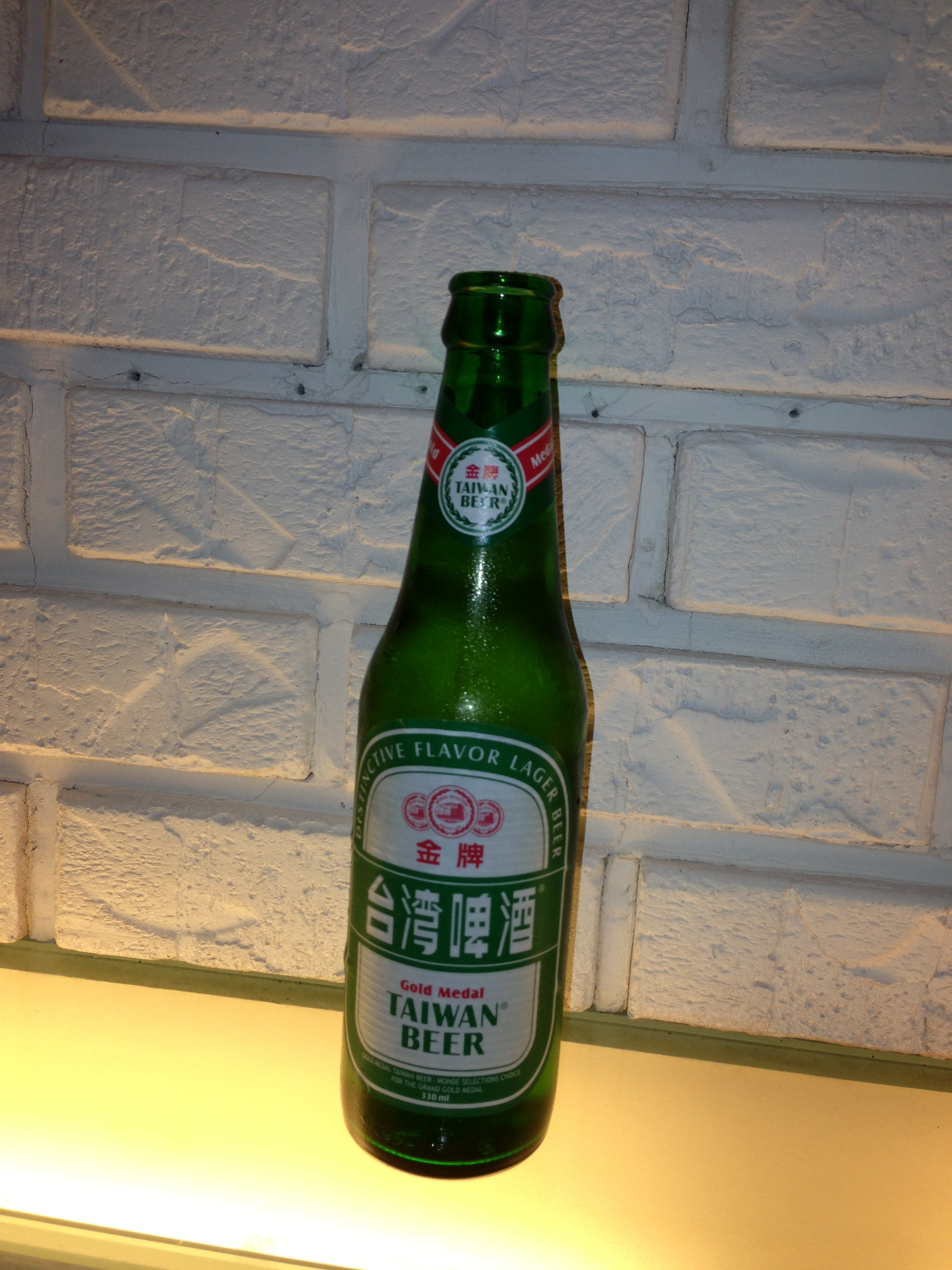 Gold Medal Taiwan Beer 330ml bottle